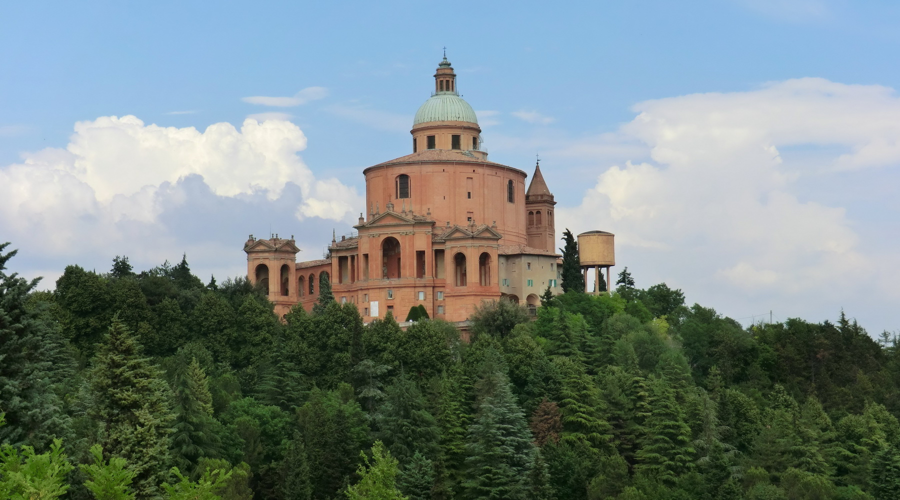 Sanctuary of the Madonna di San Luca Native nameSantuario della Madonna di San LucaLocationBalogna, Emilia-Romagna, ItalyCoordinates44° 28′ 44″ N, 11° 17′ 53″ E Established1194-1765 (Constructed)Web page control : Q2004104 VIAF: 158724534 LCCN: nr95024475 WorldCat institution QS:P195,Q2004104